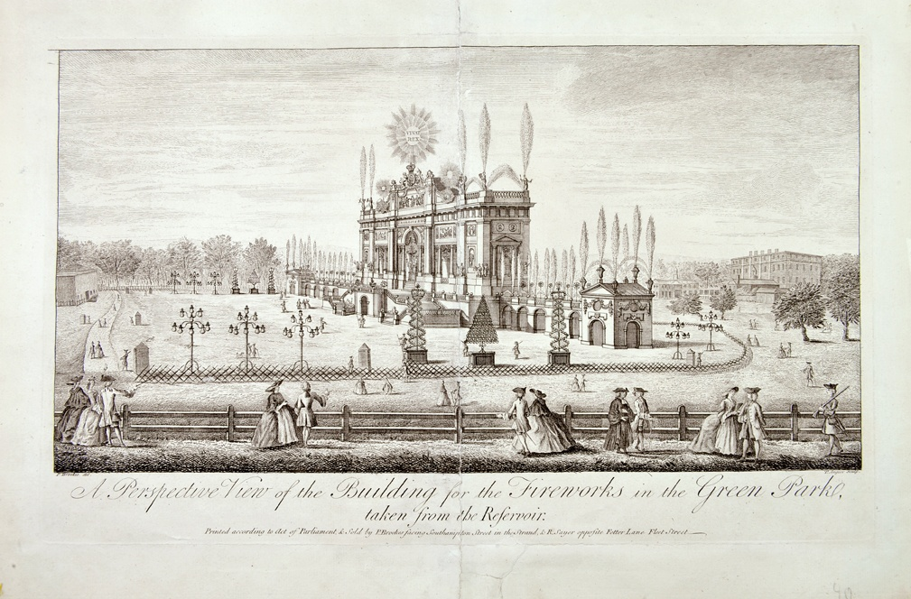 A Perspektive View of the Building for the Fireworks in the Green Park, taken from the Reservoir. Printed according to Act of Parliament & Sold by P. Brookes facing Southampton Street in the Strand, & R. Sayer opposite Fetter Lane Fleet Street